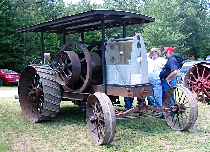 An early International Harvester tractor from 1920, on display at the Badger Steam and Gas Engine Club annual tractor show.